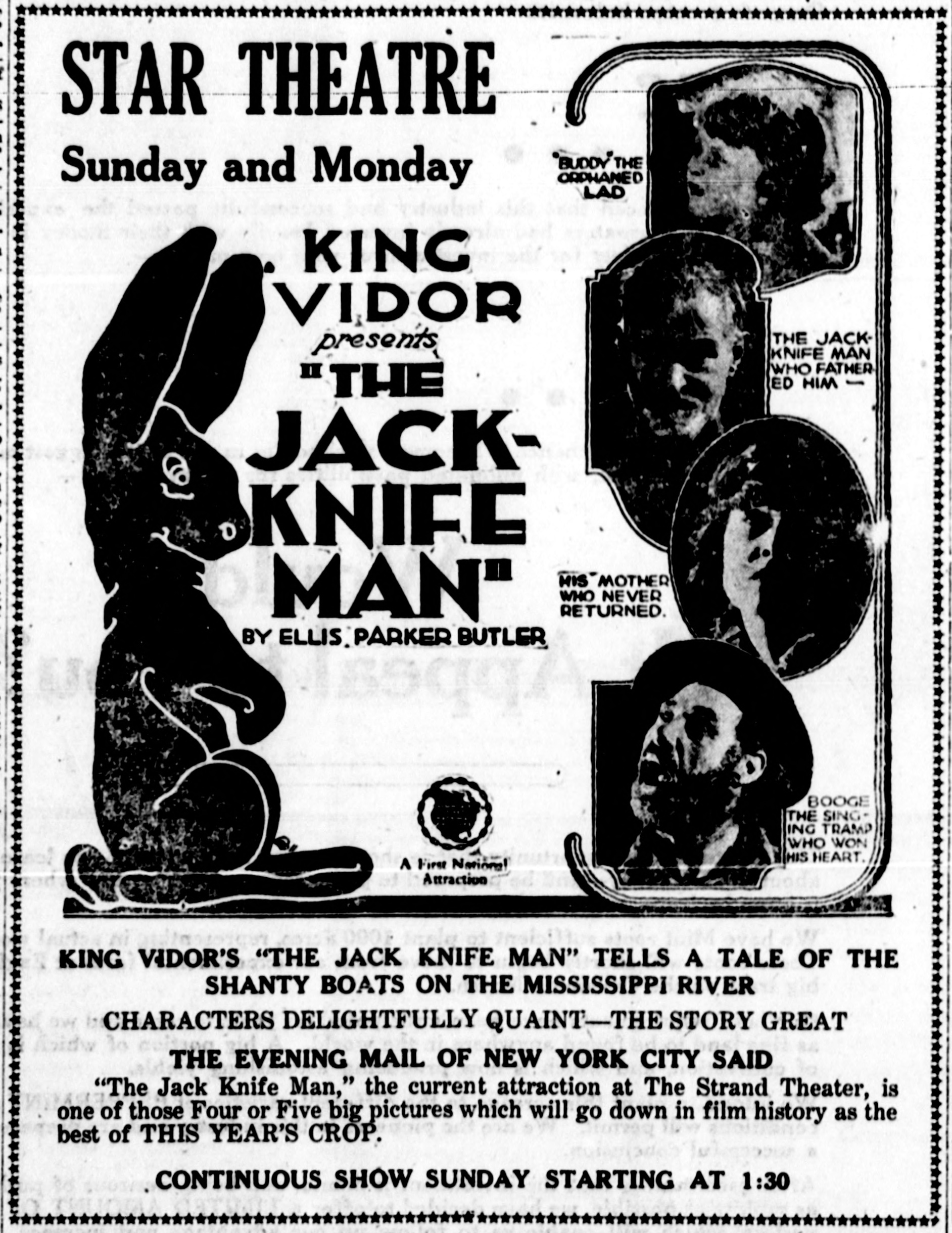 The Jack-Knife Man is a 1920 American silent drama film directed by King Vidor. This is a newspaper advertisement for the film with Fred Turner as the "Jack-Knife Man," Bobby Kelso as "Buddy" and Harry Todd as "Booge."